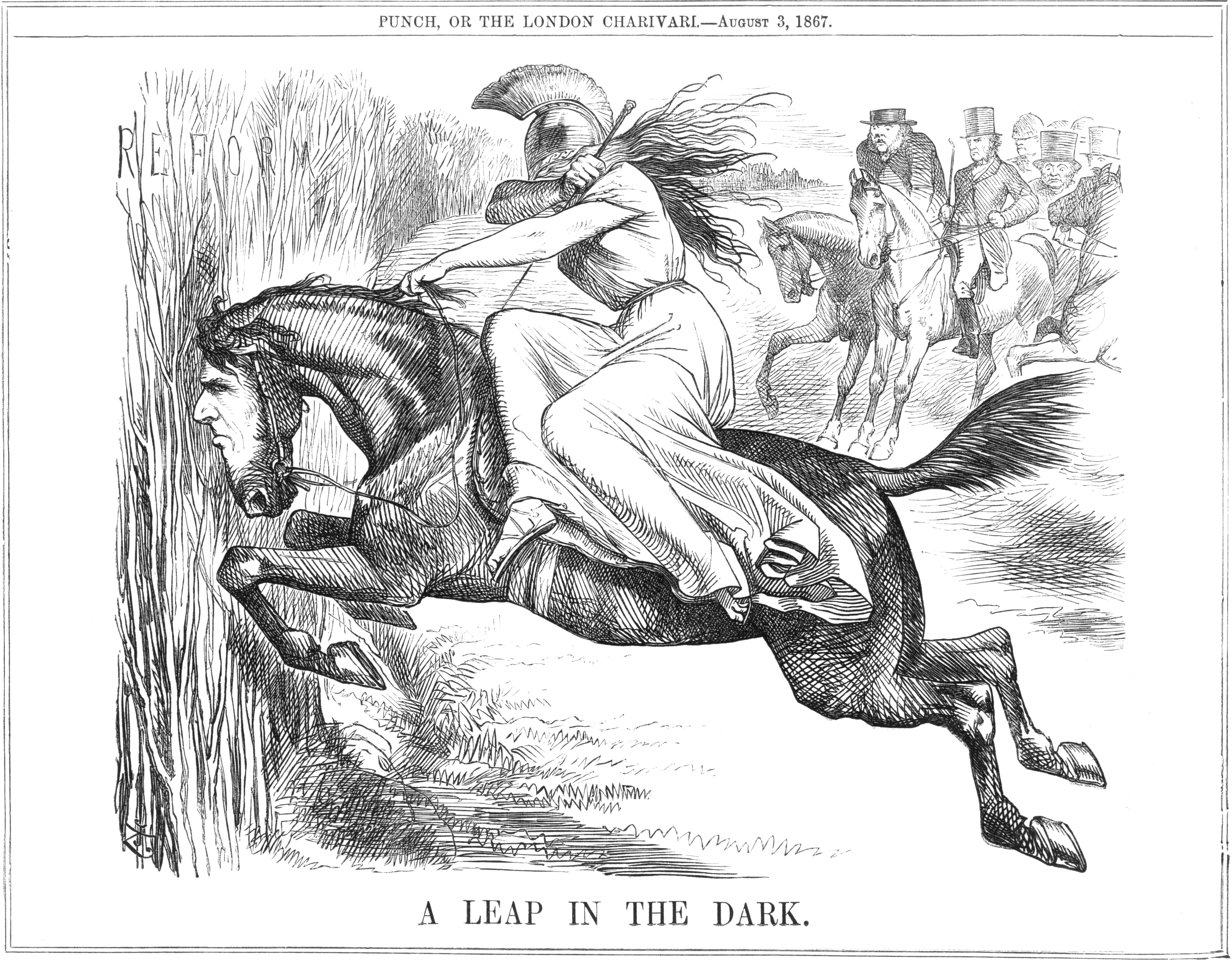 "A Leap in the Dark", cartoon commenting on the 1867 reform bill, showing Britannia galloping blind into the thicket of reform, while a top-hatted hunting party looks on.